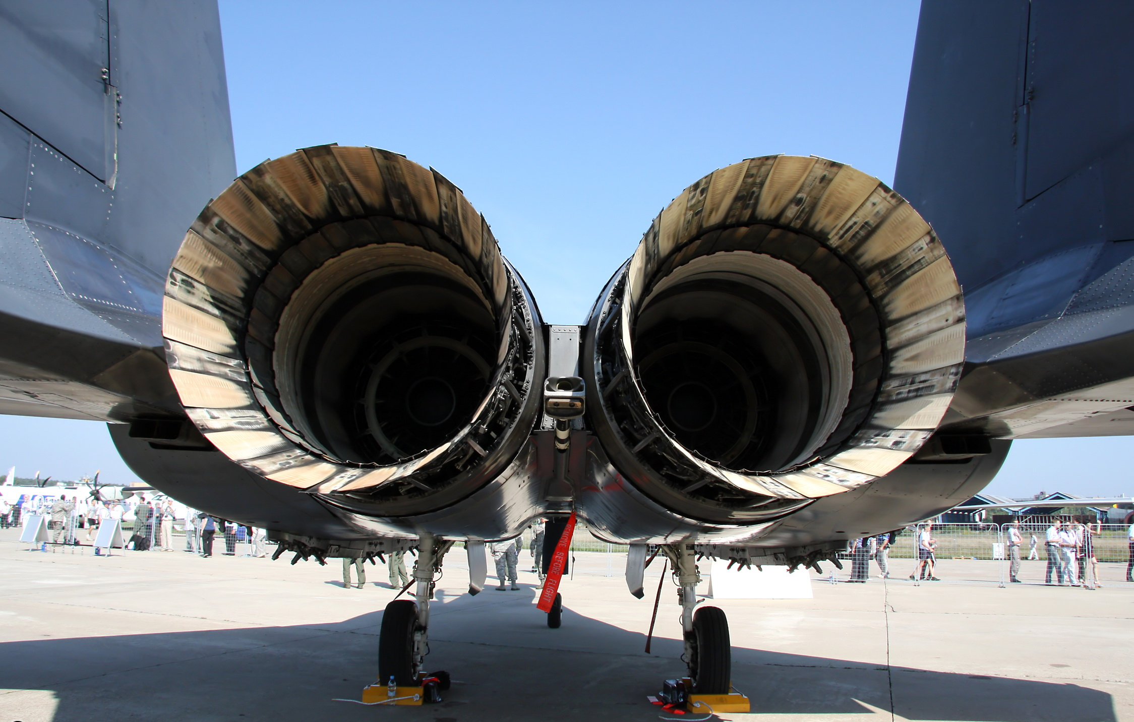 F-15E Strike Eagle from 492nd Fighter Squadron 48th Fighter Wing, RAF Lakenheath, England.